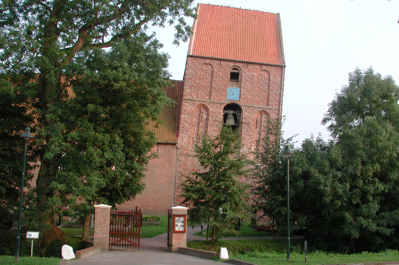 Leaning Tower of Suurhusen in East Frisia, Germany